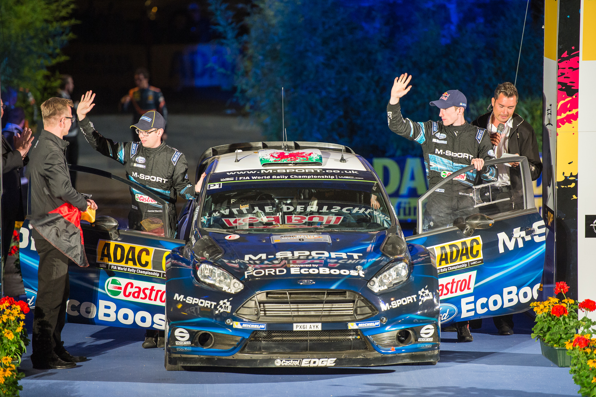 ADAC Rallye Deutschland 2014,Ceremonial Start,Daniel Barritt,Elfyn Evans,FIA,FIA World Rally Championship,Ford Fiesta RS WRC,M-Sport WRT,M-Sport World Rally Team,Motorsport,Rally,Rallye,Showstart,WRC,Zeremonienstart